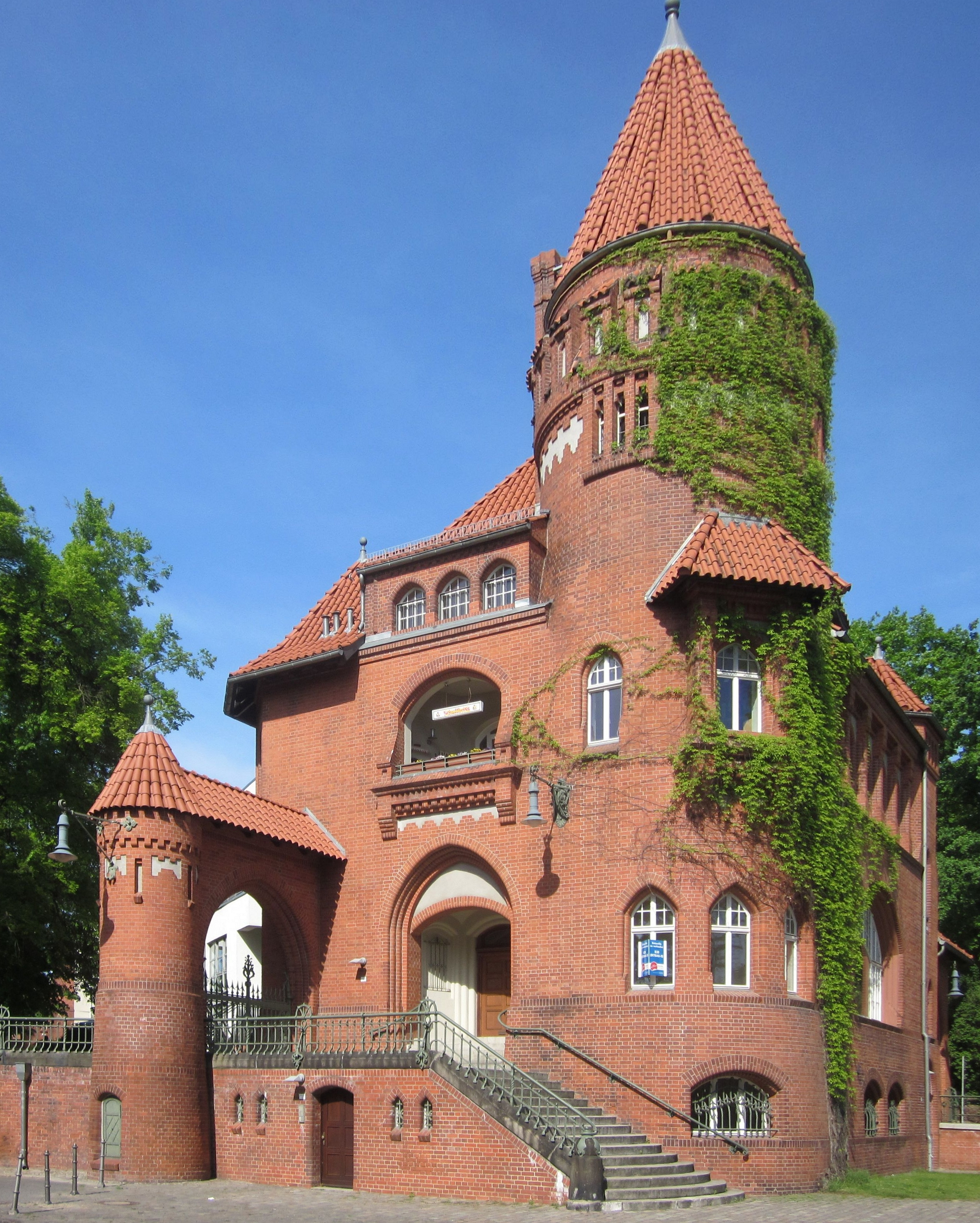 Drinking house, so-called Sixtus Villa, on the former compound of the Department II of the Schultheiss brewery, now Viktoria-Quartier, at Methfesselstraße in Berlin-Kreuzberg. The brewery buildings on the compound were built in two stages from 1857 to 1859 and from 1862 to 1873 for the Tivoli brewery; they were taken over by Schultheiss in 1891. The drinking house in the style of a medieval castle was built in 1891 by Karl Teichen. The preserved historic brewery buildings and the drinking house constitute a complex that has been designated as a cultural heritage monument.